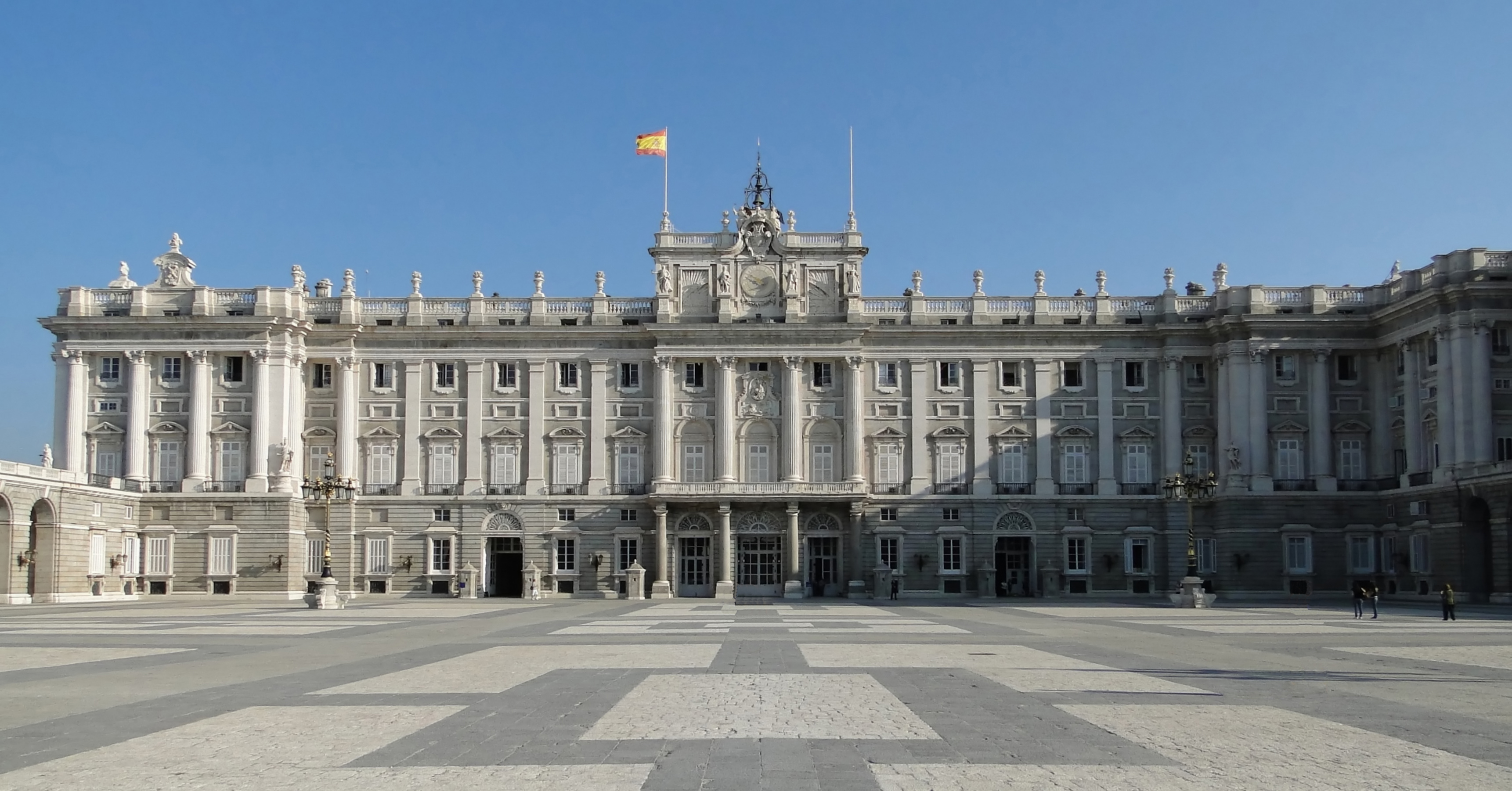 Courtyard of the Royal Palace of Madrid, Spain